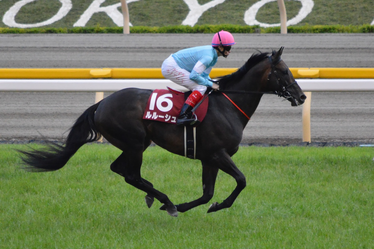 Japanese race horse Lelouch at Tokyo racecourse. Tokyo (JPN) 26 May 2013 Meguro Kinen (Grade 2 Handicap) (Turf) (4yo+) 1m41/2f Firm RankHorse NameOddsAgeWgtTrainerJockey1stMousquetaire (JPN)78/10H58-11Yasuo TomomichiHiroyuki Uchida2ndLelouch (JPN)53/10H59-0Kazuo FujisawaCraig A Williams3rdKahuna (JPN)6/1H58-13Yasutoshi IkeeKeita Tosaki4th - 18th/omission